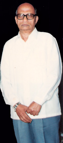 C H Prahlada Rao